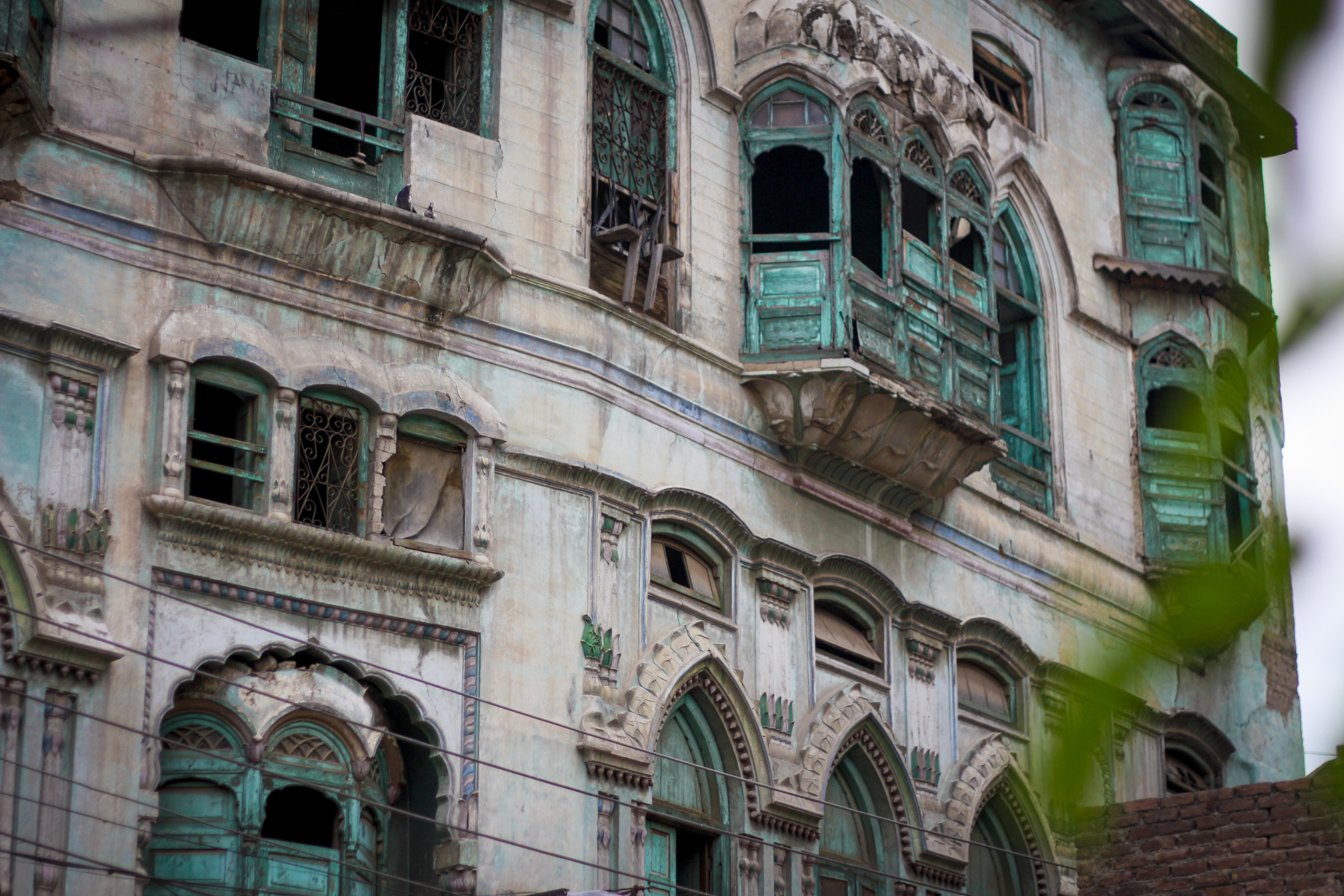 Kapoor Family House This is a photo of a monument in Pakistan identified as the KPK-85